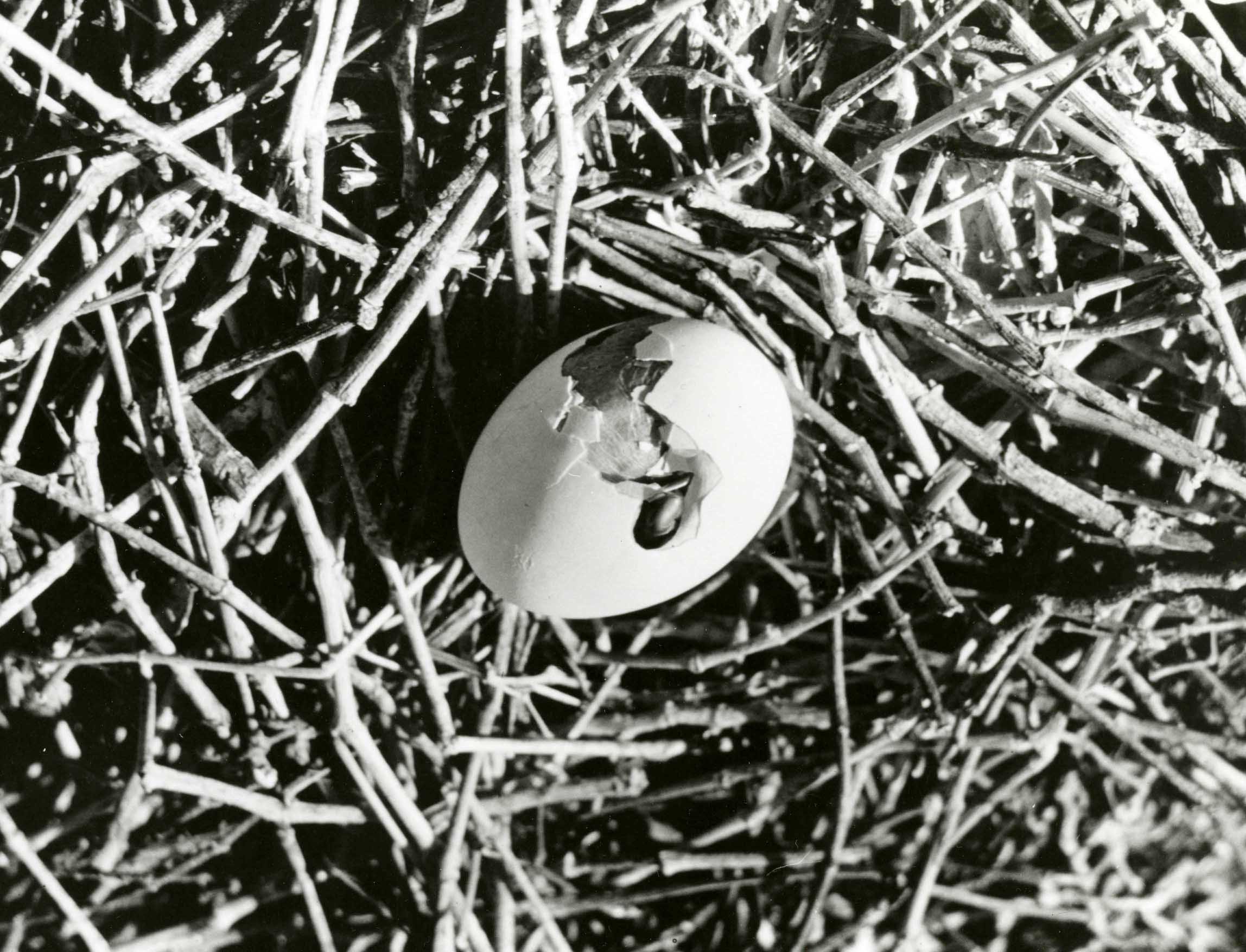 Creator: David L. Pearson Local number: SIA2011-1361 Summary: RU 245 Box 230 Folder 17. A Lesser frigate-bird egg found pipping on Jarvis Island. This photograph was taken by David L. Pearson, a researcher working with the Pacific Ocean Biological Survey Program. Repository: Smithsonian Institution Archives View more collections from the Smithsonian Institution.